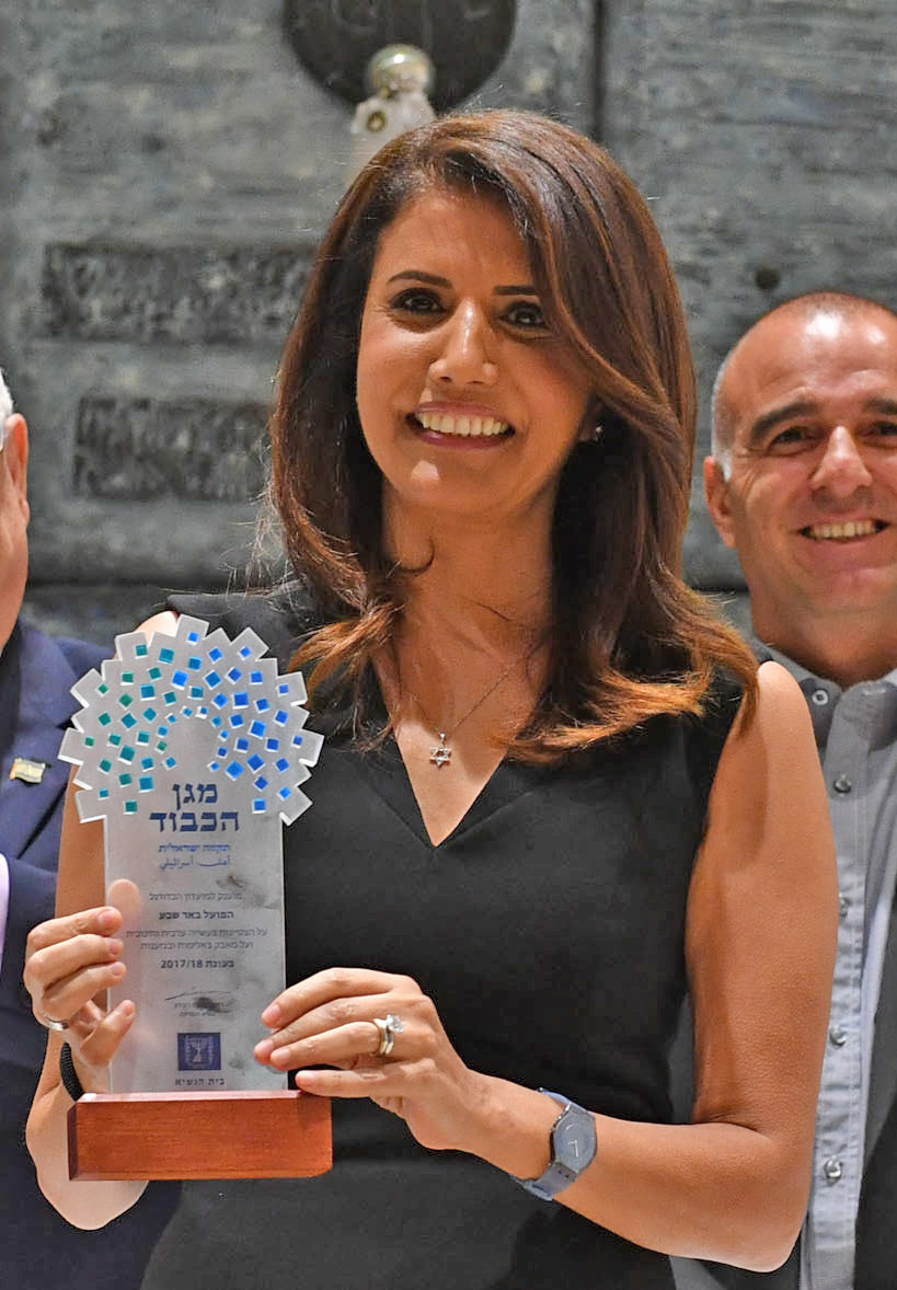 .". אירוע מתן אות כבוד של נישא מדינת ישראל "מגן הכבוד: תקווה ישראלית האות ניתן על ידי בית הנשיא בשותפות עם משרד התרבות והספורט וההתאחדות לכדורגל לקבוצות וגופים הפועלים בענף הכדורגל בישראל שהצטיינו בעשייה ערכית וחינוכית ובמאבק באלימות ובגזענות , בתמונה: אלונה ברקת בעלת הפועל באר שבע: לעונת 2017/18 למועדון הכדורגל הפועל באר שבע שהצטיין בעשייה ערכית וחינוכית ובמאבק באלימות ובגזענות